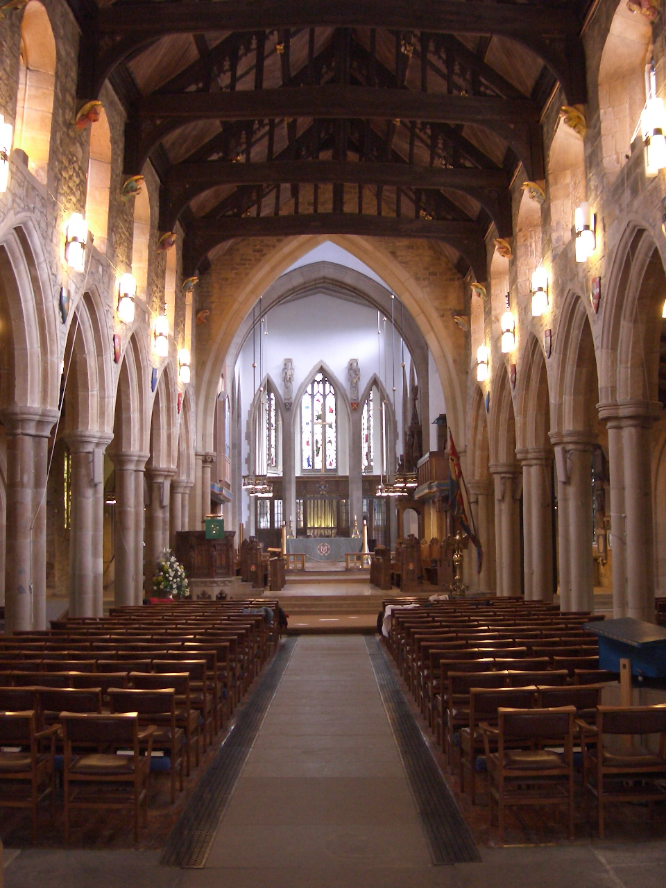 Nave of Bradford cathedral